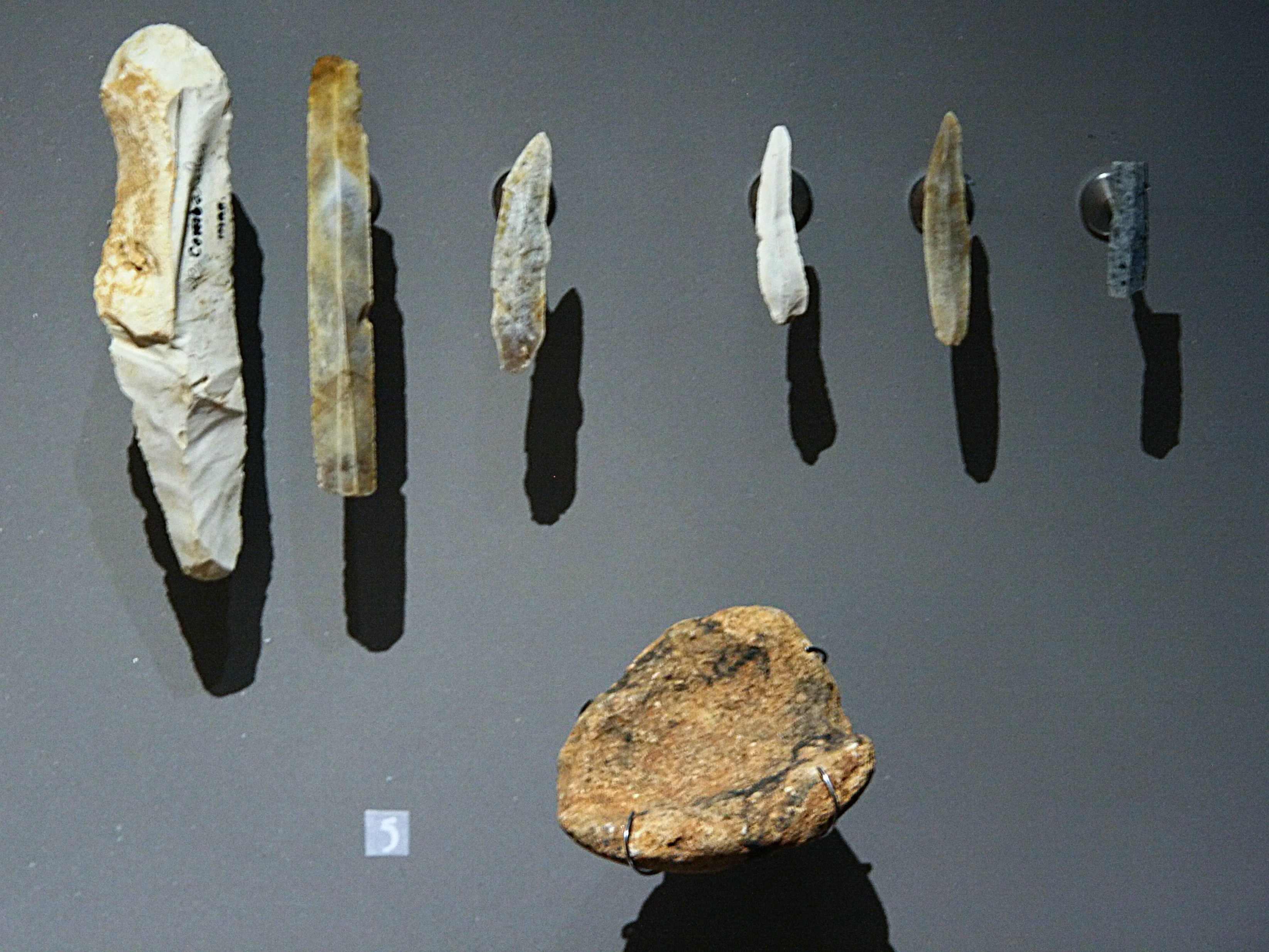 Prehistoric tools: scraper (up left); little blades (up); godet, a cup for painting (down). Found in Les Combarelles cave, Les Eyzies-de-Tayac, Dordogne, France. Upper Magdalenian, near 12,000 - 10,000 BP. These tools can be seen in the National Prehistory Museum in Les Eyzies-de-Tayac.